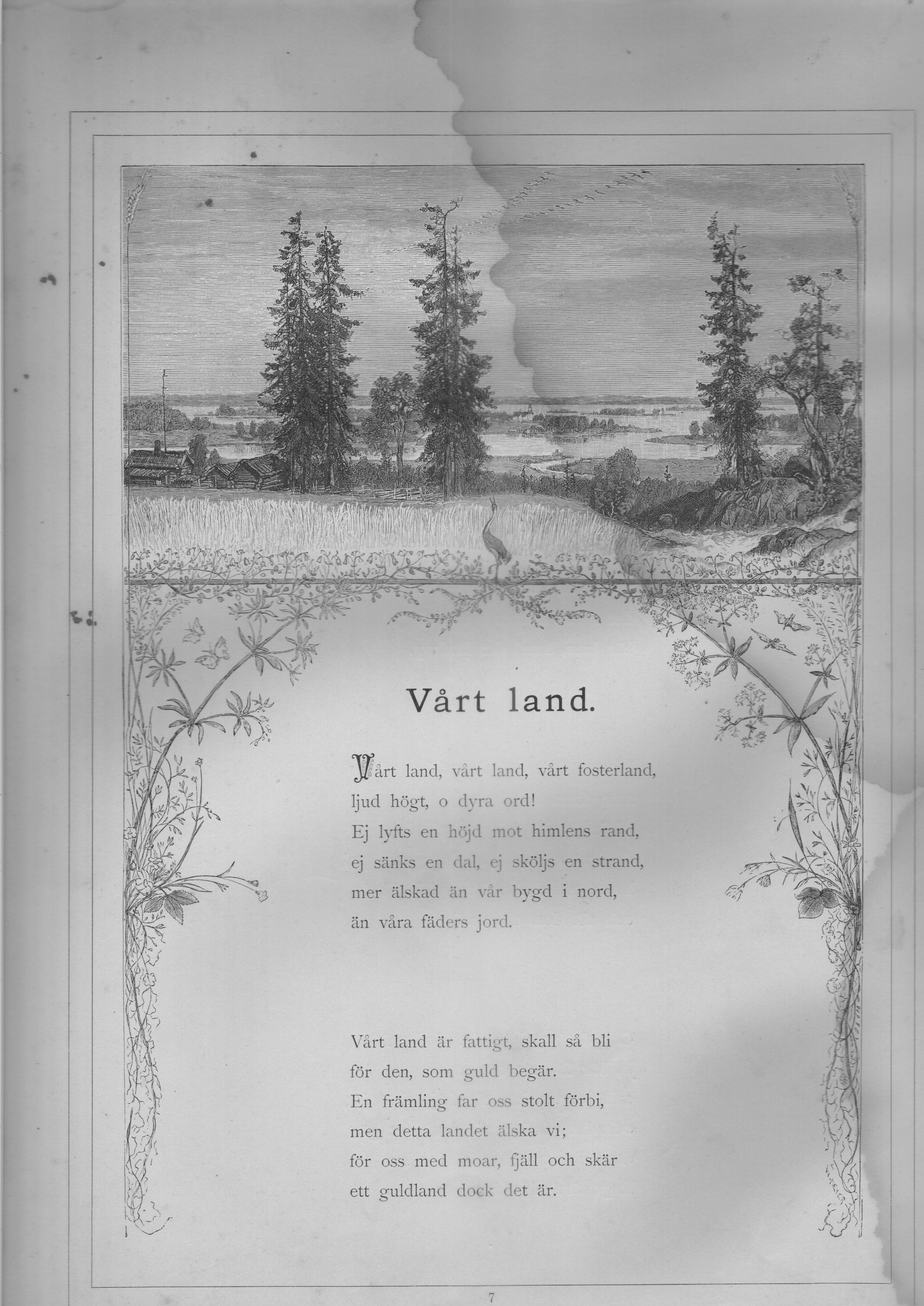 The national anthem of Finland, original text